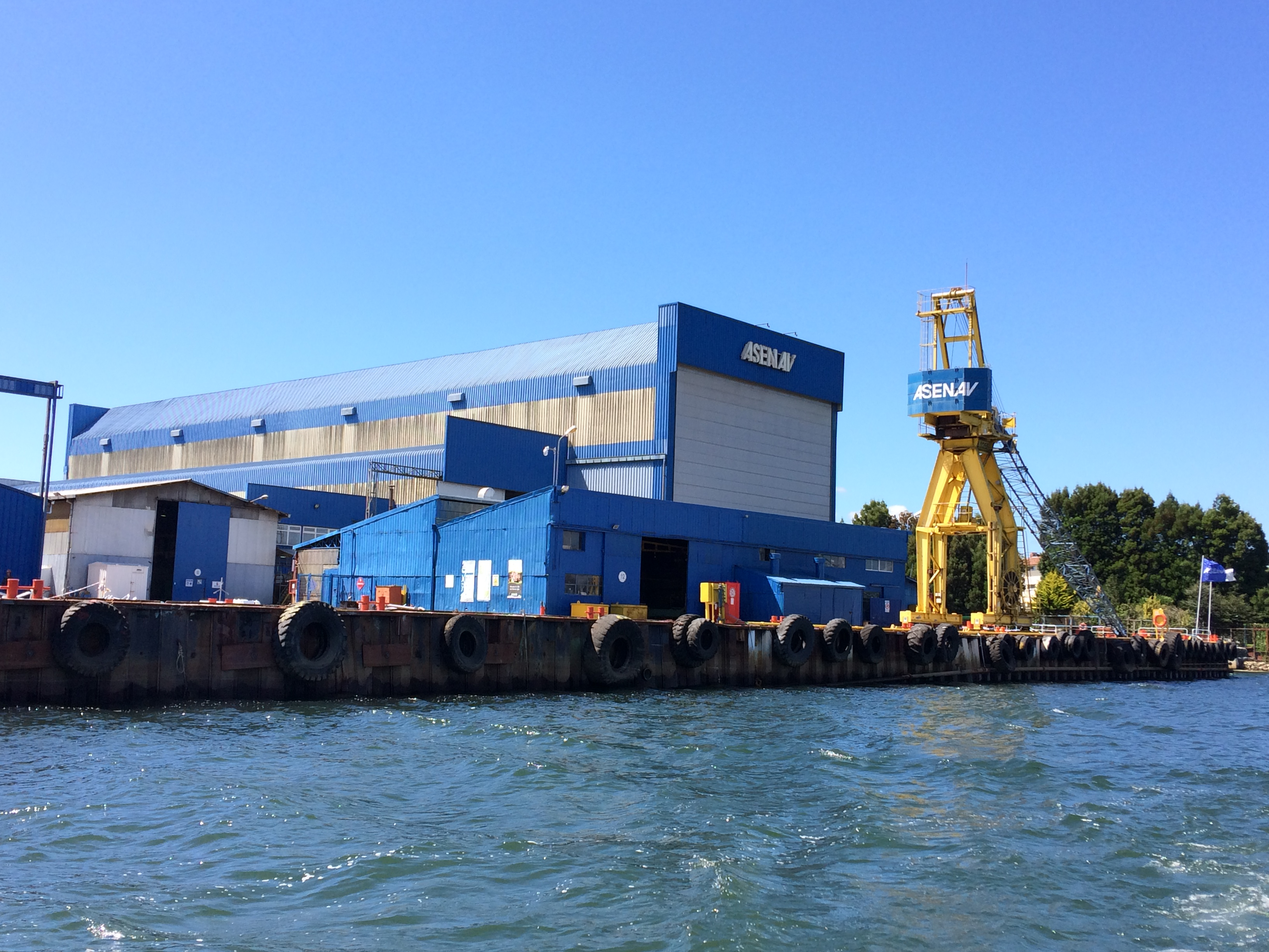 Picture of Asnav shipyards taken from the Calle-Calle river in Valdivia, Región de Los Lagos, Chile.